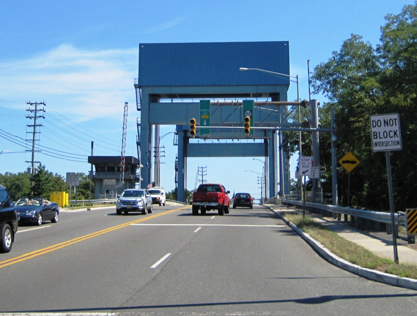 Photo showing the Veterans Memorial Bridge looking east along New Jersey Route 88 in Point Pleasant, New Jersey from Beaver Dam Road (County Route 630 and Herbertsville Road (CR 549 Spur). The bridge crosses the Point Pleasant Canal, part of the Intracoastal Waterway.